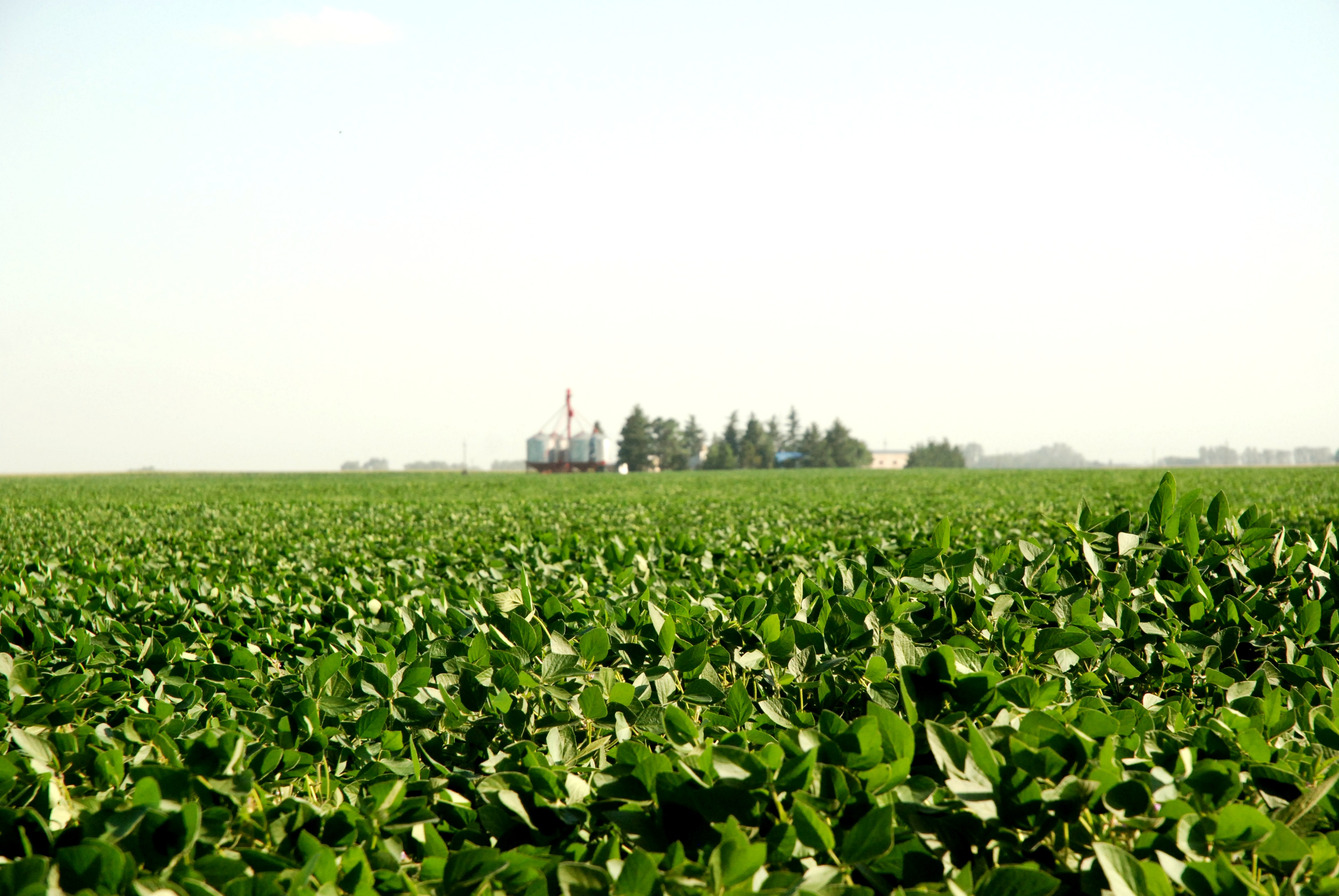 Field planted with soybeans in Junin, Argentina